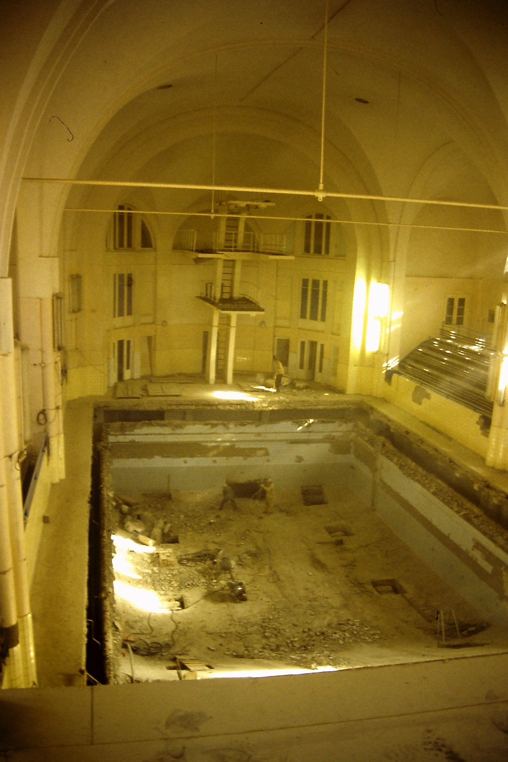 Lutheran Church of Saint Peter and Saint Paul, 1994, during removal of the swimming pool facilities.